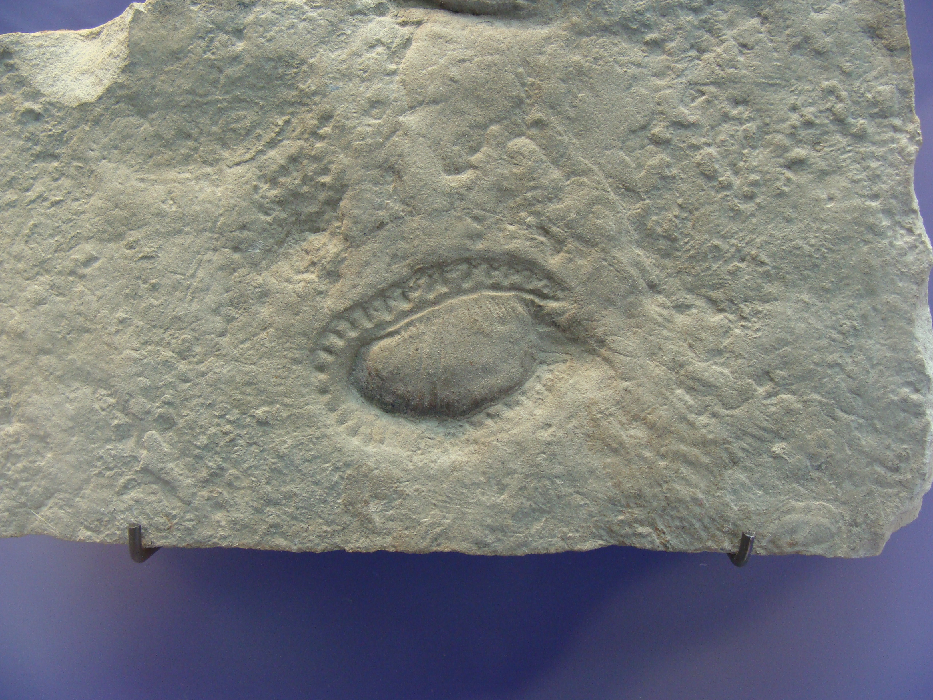 Kimberella quadrata in the Royal Belgian Institute of Natural Sciences.